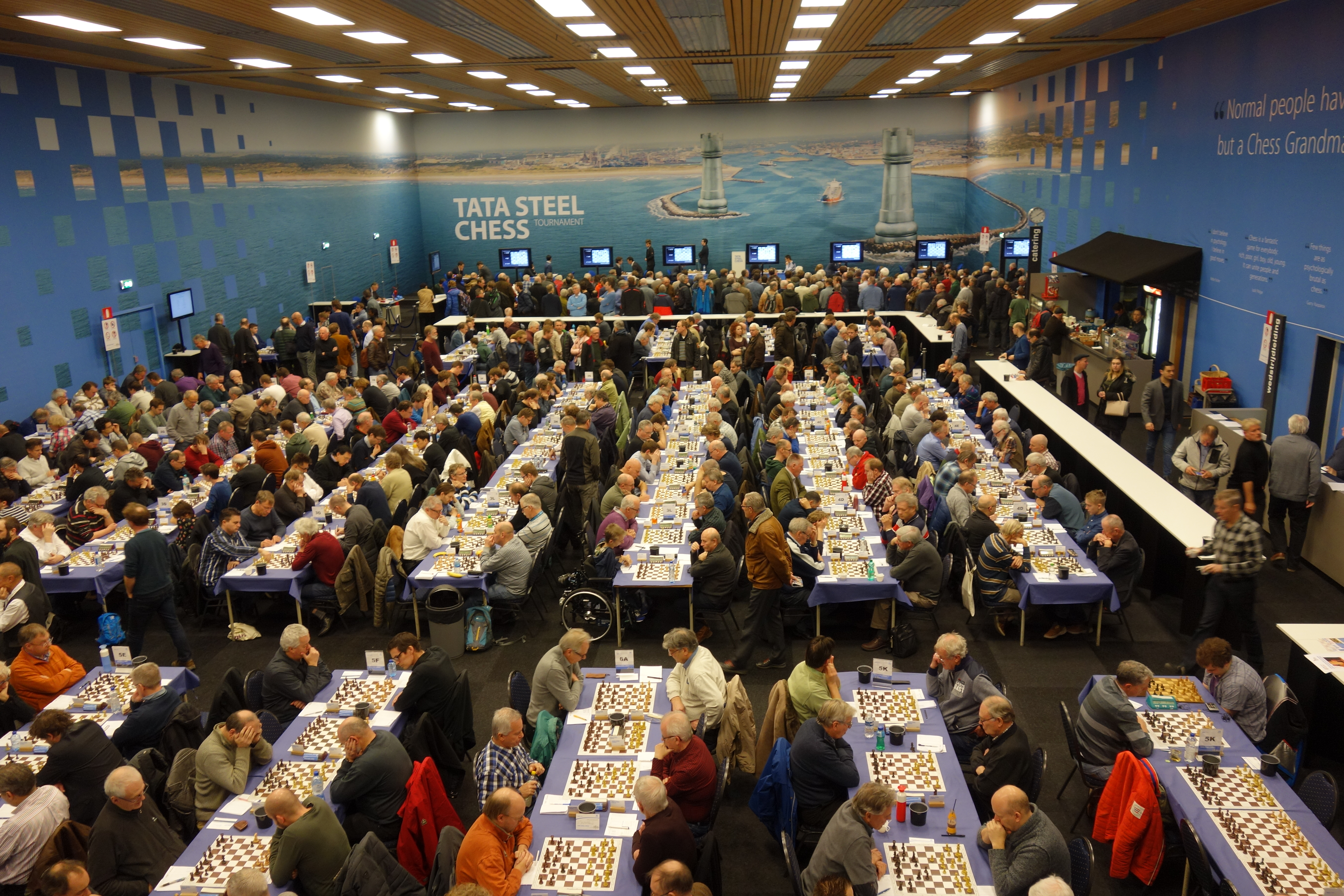 Tata Steel Chess Tournament 2017, Wijk aan Zee (the Netherlands), 28 January 2017. Interior of Dorpshuis De Moriaan.